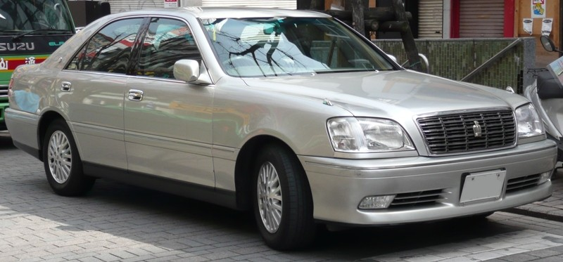 Toyota Crown.